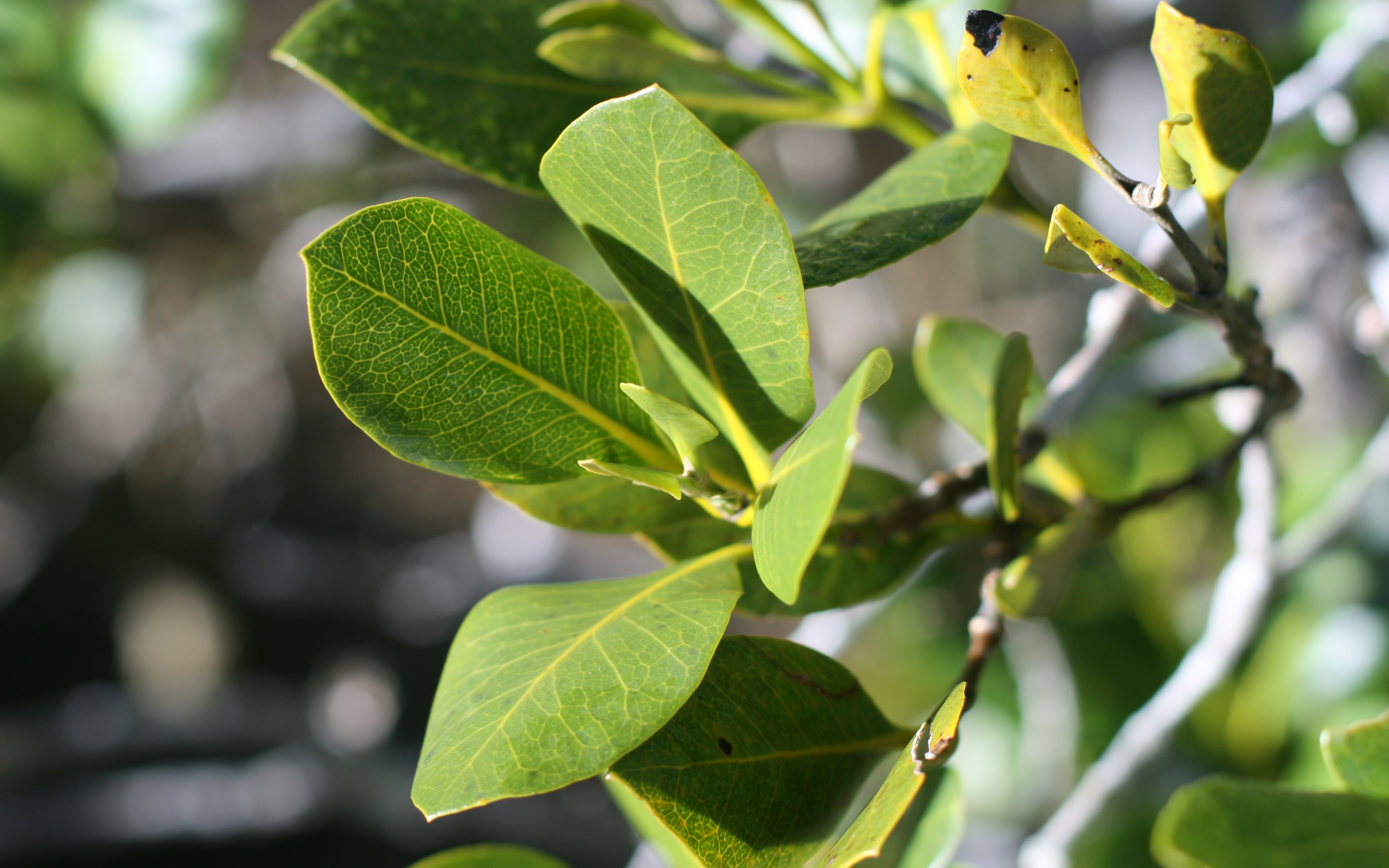 Leaves of mangrove Avicennia marina subsp. australasica, Paihia, Bay of Islands, New Zealand.